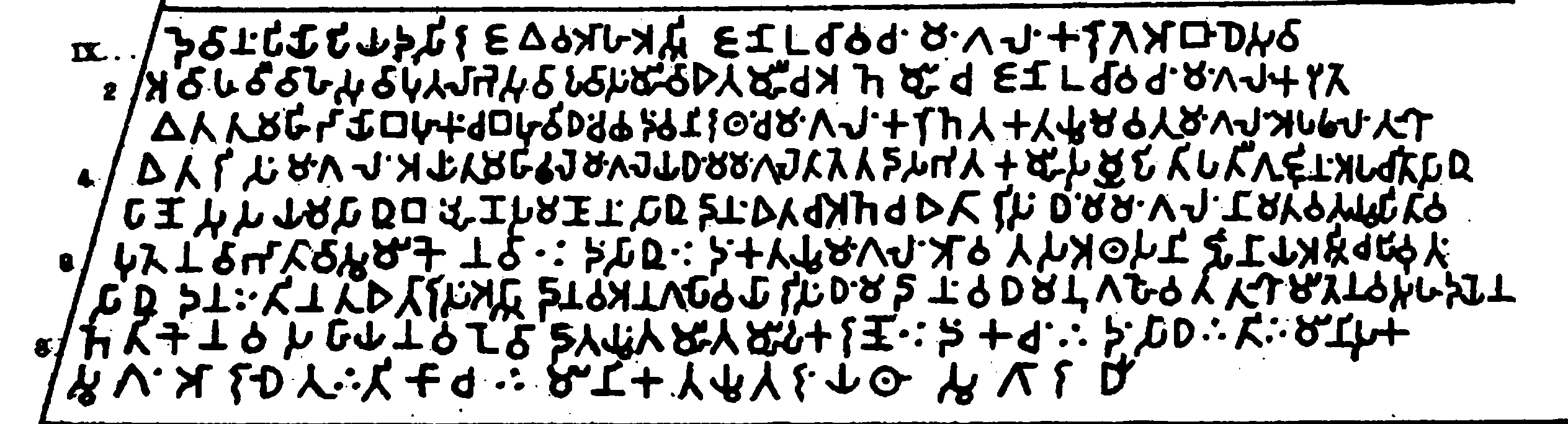 Girnar Major Rock Edict No9